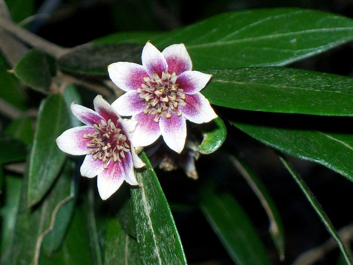 Atherosperma moschatum subsp. integrifolium taken near a waterfall, Leura. Blue Mountains National Park, Australia. Nearby plants include Callicoma, Elaeocarpus holopetalus and Leptopteris fraseri